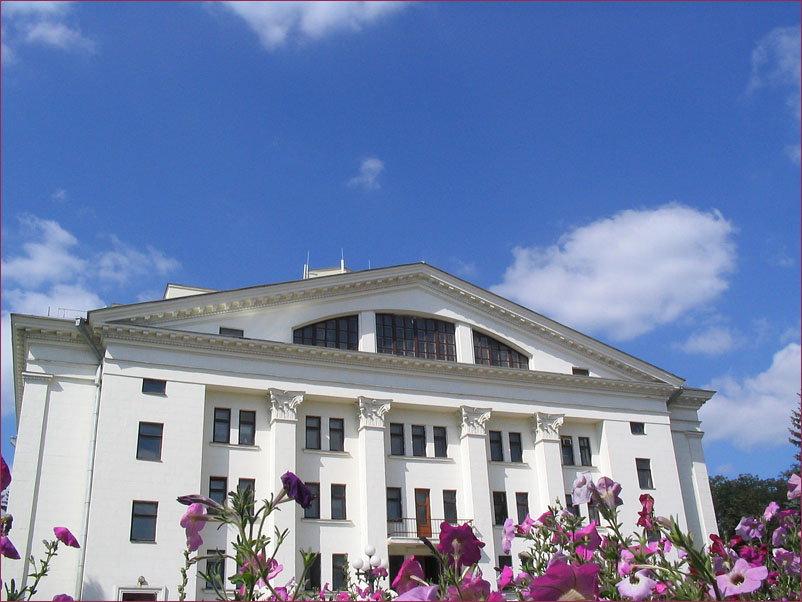 The Donetsk Regional Russian Drama Theatre in Mariupol, Donetsk Oblast, Ukraine.